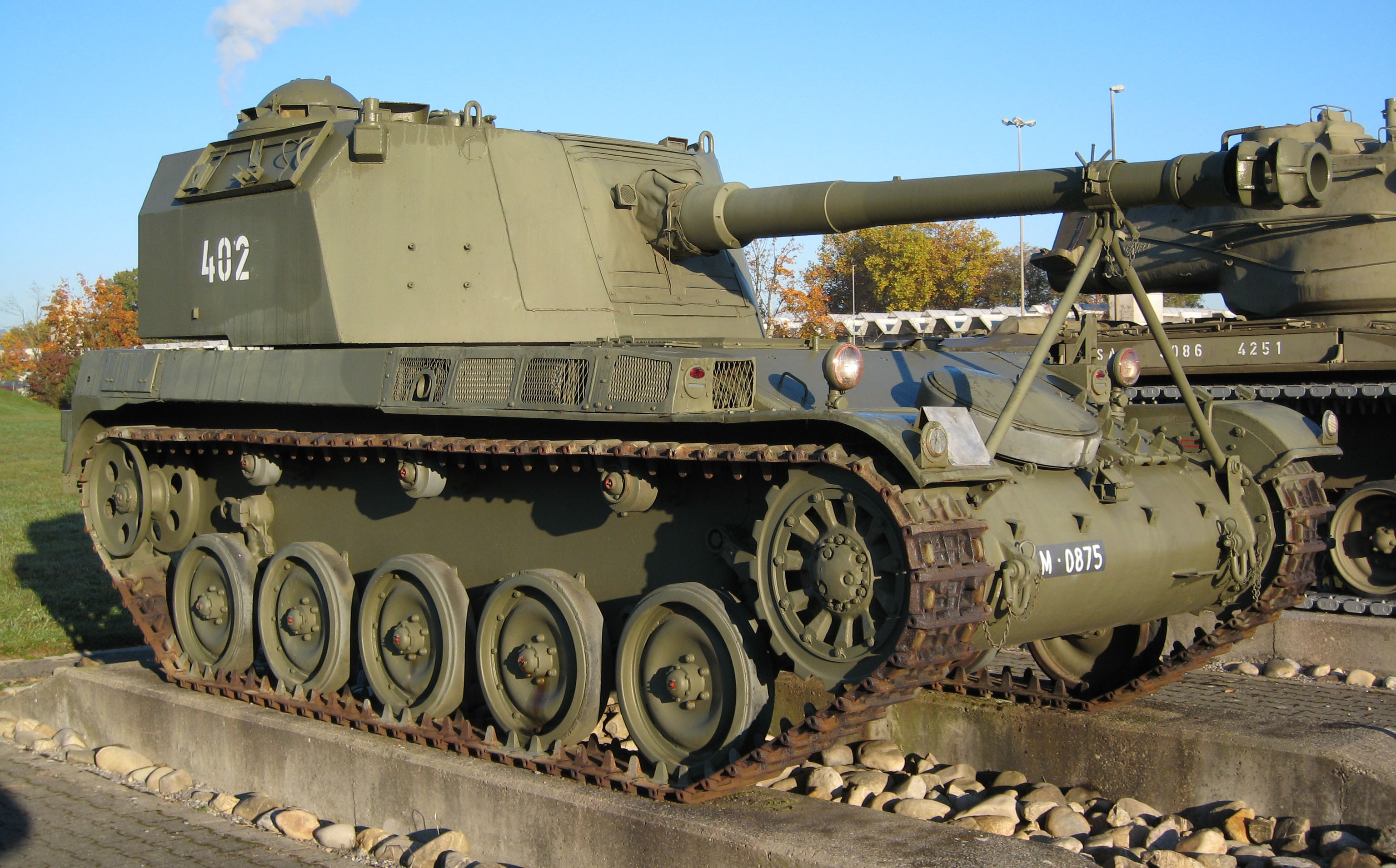 Swiss Army. AMX 13, self propelled howitzer variant (trial vehicle, the model did not see service). Tank Museum Thun.